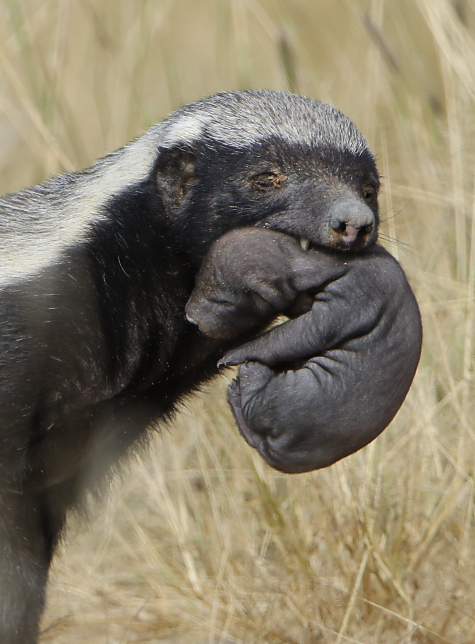 Honey badger, Mellivora capensis, carrying young pup in her mouth at Kgalagadi Transfrontier Park, Northern Cape, South Africa